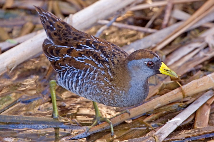 Sora (crake) (Porzana carolina), Birding Center, Port Aransas, Texas